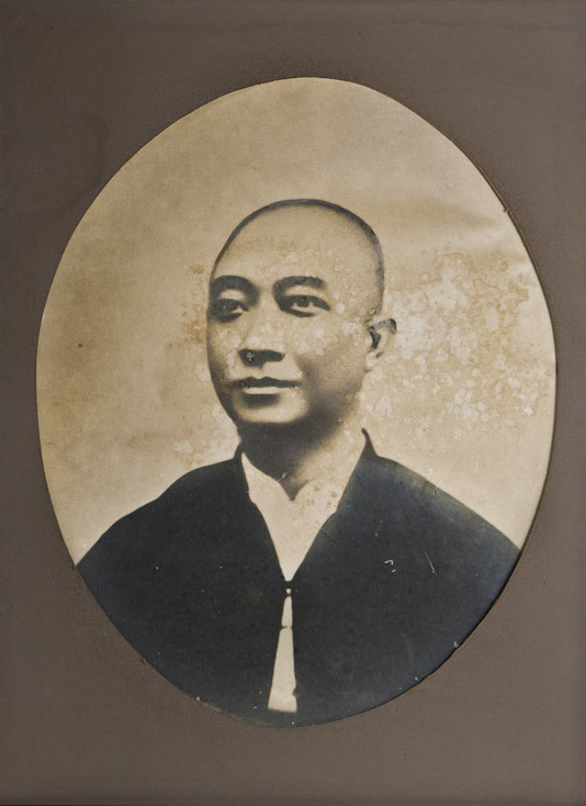 Portrait of Tio Tek Ho, 4th Majoor der Chinezen of Batavia (now Jakarta)